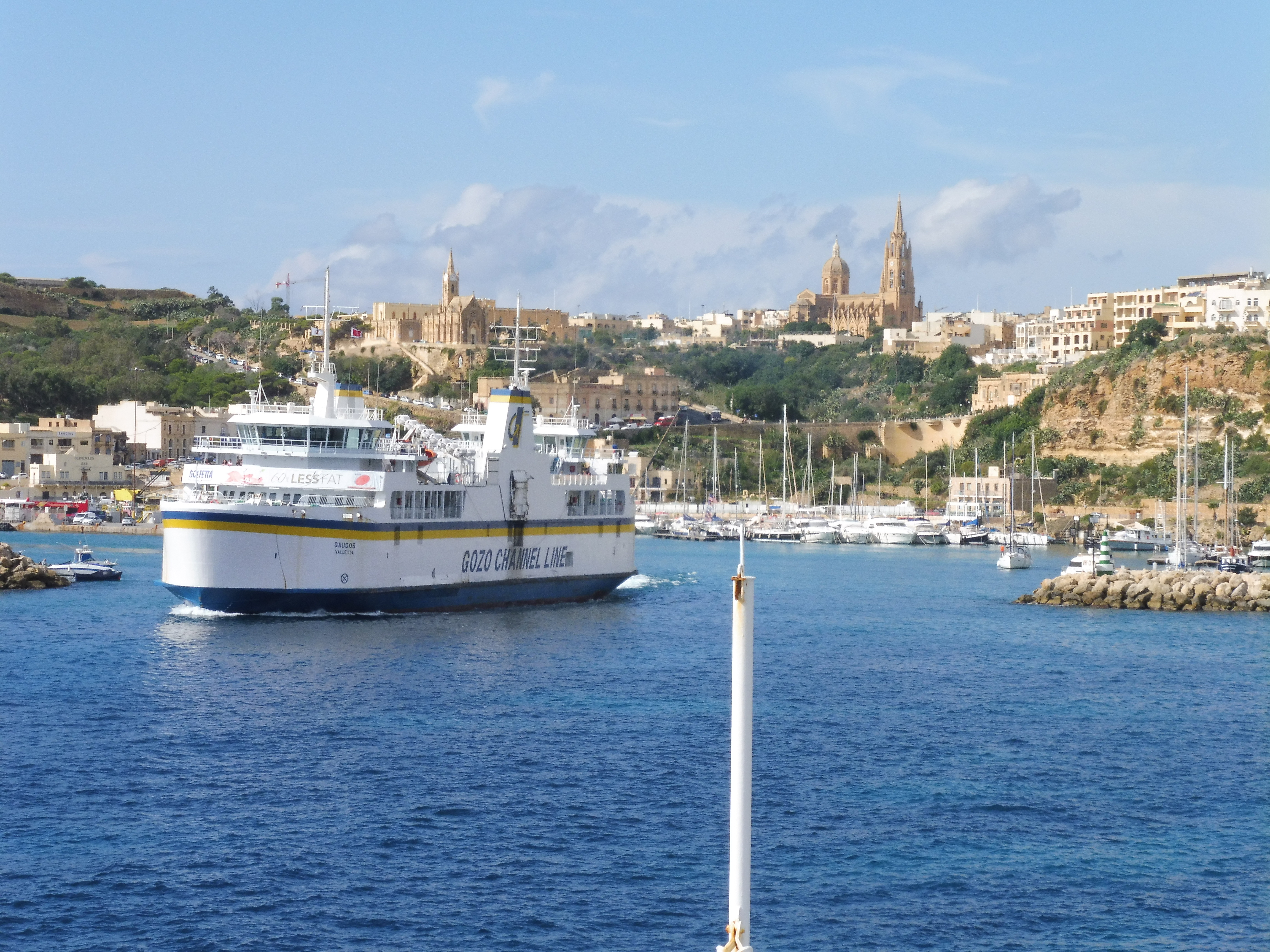 Ferry "Gaudos" of the Gozo Channel Line leaving the harbour of Mgarr on Gozo (Malta), 2019